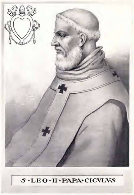 This illustration is from The Lives and Times of the Popes by Chevalier Artaud de Montor, New York: The Catholic Publication Society of America, 1911. It was originally published in 1842.